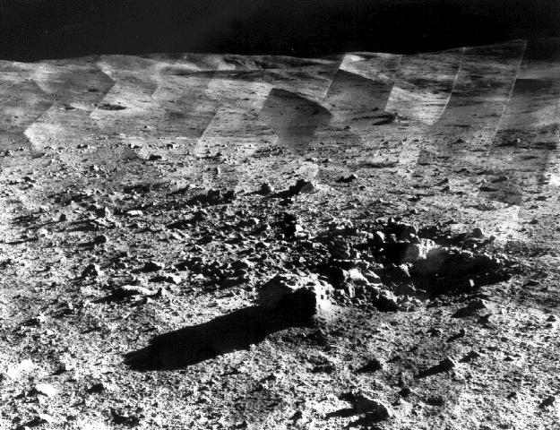 Original caption: "Photomosaic of lunar panorama near the Tycho crater taken by Surveyor 7. The hills on the center horizon are about eight miles away from the spacecraft. Since the landing site survey for the Apollo missions had been successfully completed by the previous Surveyors, the landing site for Surveyor 7 was selected more for its scientific interest. Surveyor 7, in addition to taking thousands of images and gathering a wide variety of surface data, performed star surveys, took pictures of Earth, and tested laser-pointing techniques by detecting laser beams from Earth. The primary objectives of the Surveyor program having already been met by the previous missions, Surveyor 7 was sent to perform a soft landing in a type of terrain different from the previous Surveyors. Other objectives were to obtain images of the landing site, manipulate the soil and analyze its composition, and obtain temperature and radar reflectivity data. Surveyor 7 was launched on January 7, 1968 and landed on January 10, 1968."